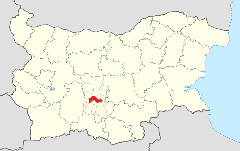 Location map of Maritsa Municipality within Bulgaria and Plovdiv province